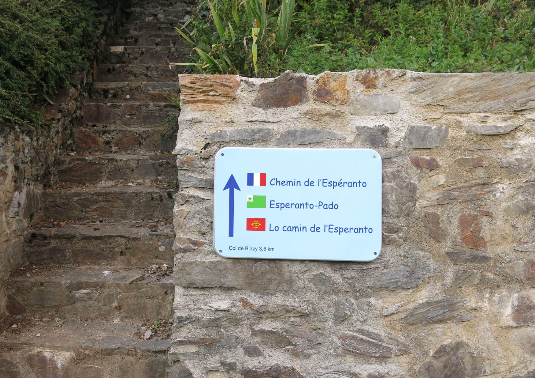 Walking trail 'Esperanto' (near church in FR-09100 Burret) in 3 languages : French, Esperanto, Occitan.